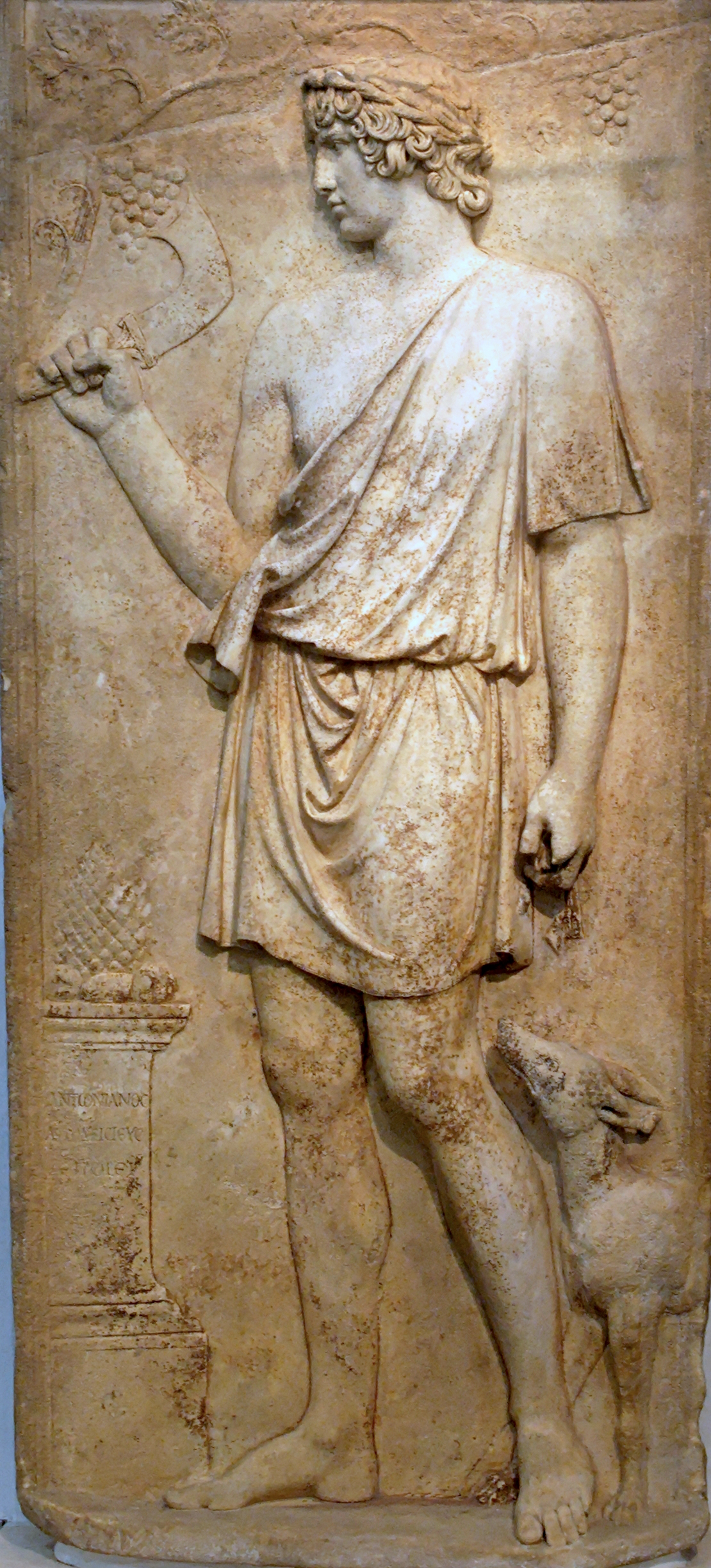 Antinous as Dionysos or Silvanus, harvesting grapes. Marble relief, 130–138 CE. From Torre del Padiglione, bewteen Anzio and Lanuvio, 1907.